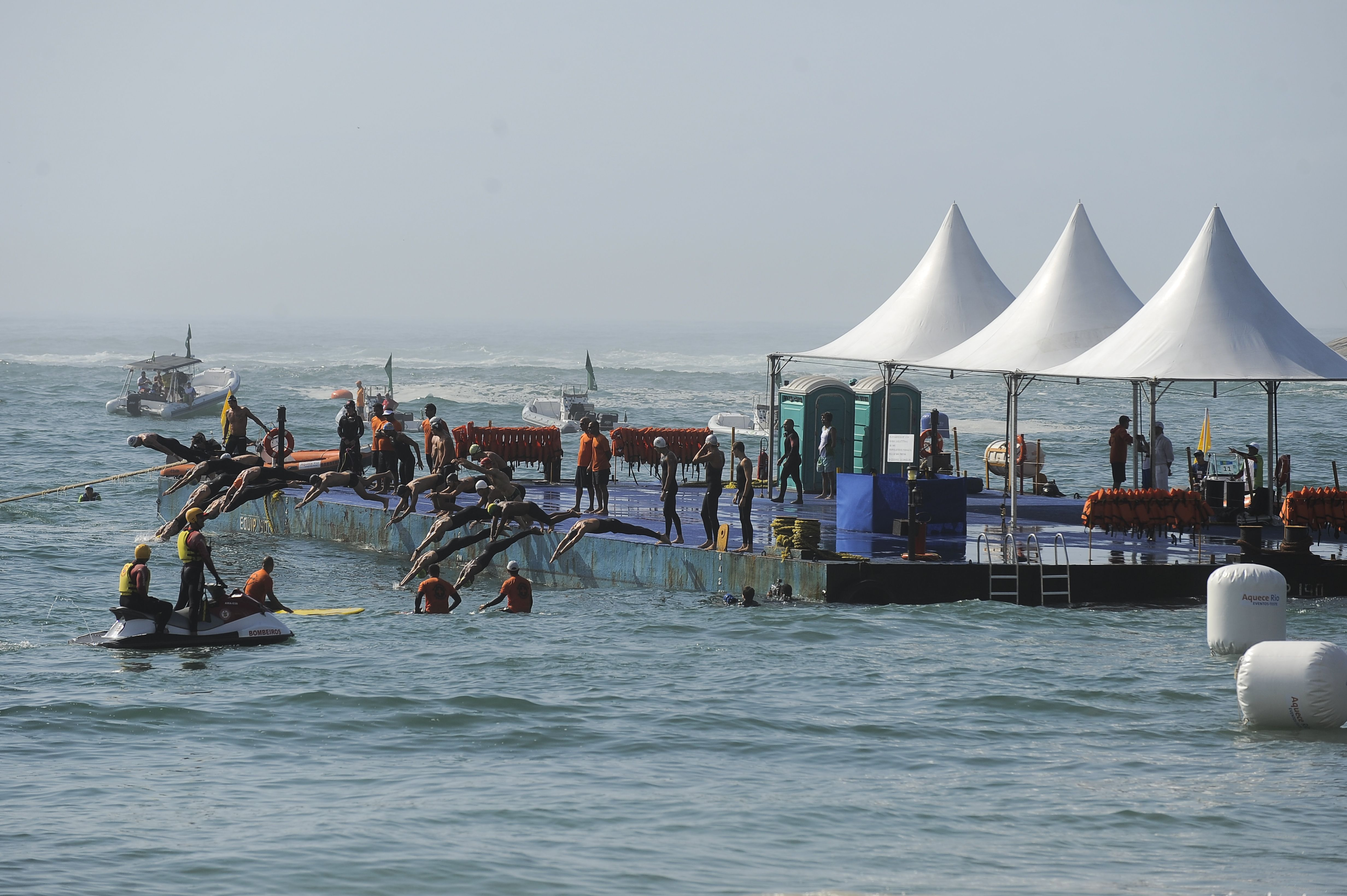 Photo by Fernando Frazão/Agência Brasil CCBY3.0